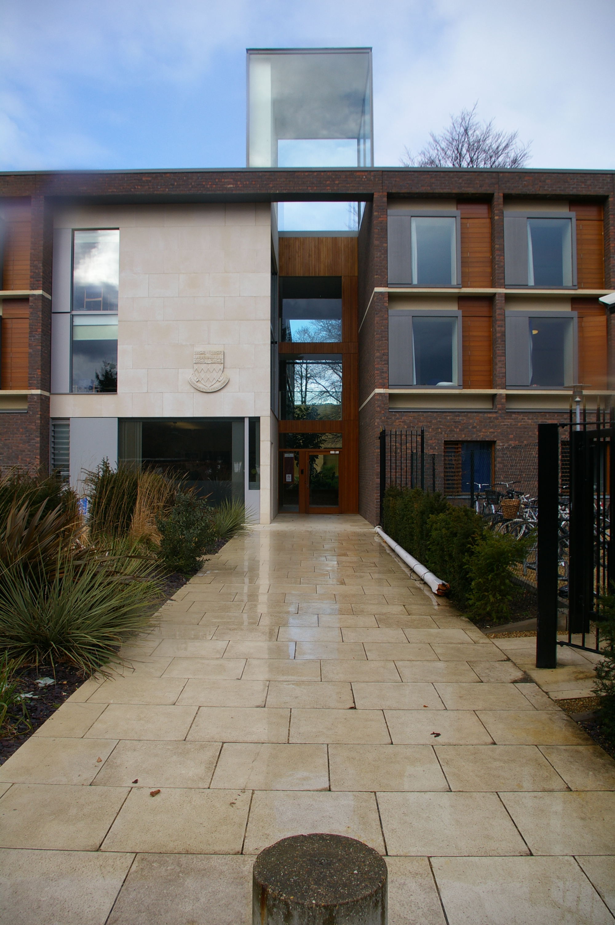 Fitzwilliam College porters' lodge A few years ago, the main entrance to Fitzwilliam College moved from Huntingdon Road to here on Storeys Way. The soft focus effect at the top of the picture could be claimed to be Art, but it's actually because I had rain on my lens.